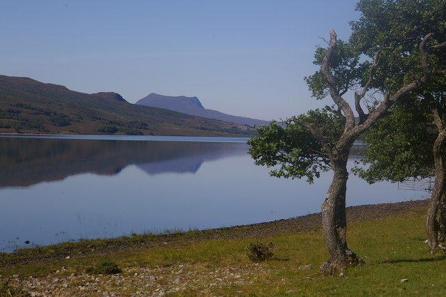 On the shore of Loch Achall with Beinn Ghobhlach in distance